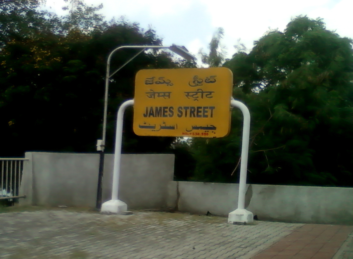 Name board of James Street MMTS railway station, Secunderabad